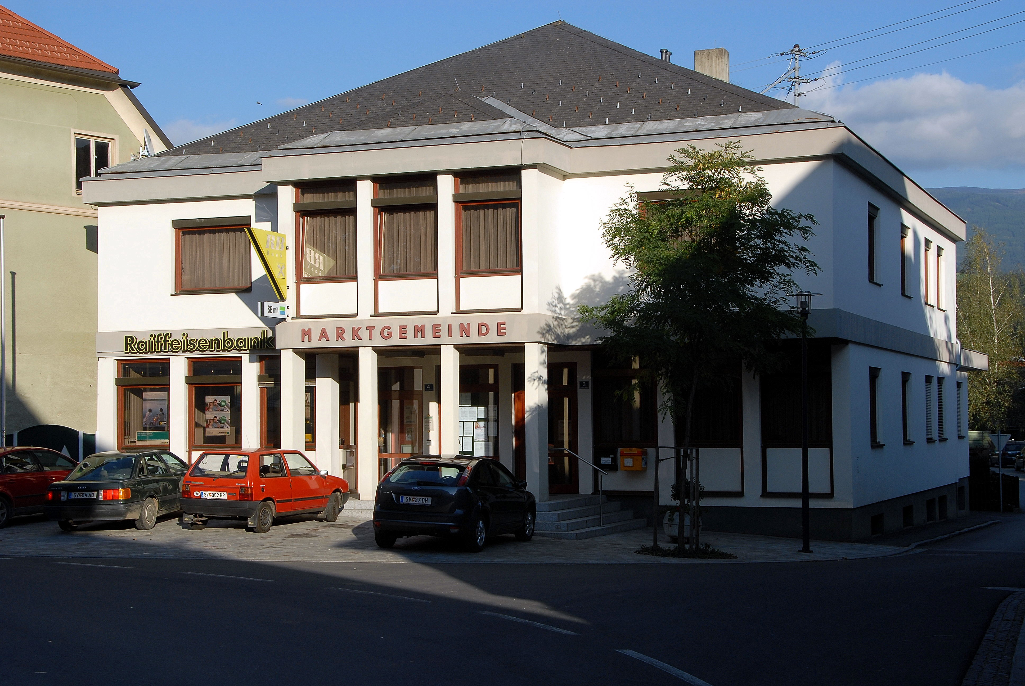 Municipal office at Guttaring, district Saint Veit on the Glan, Carinthia, Austria